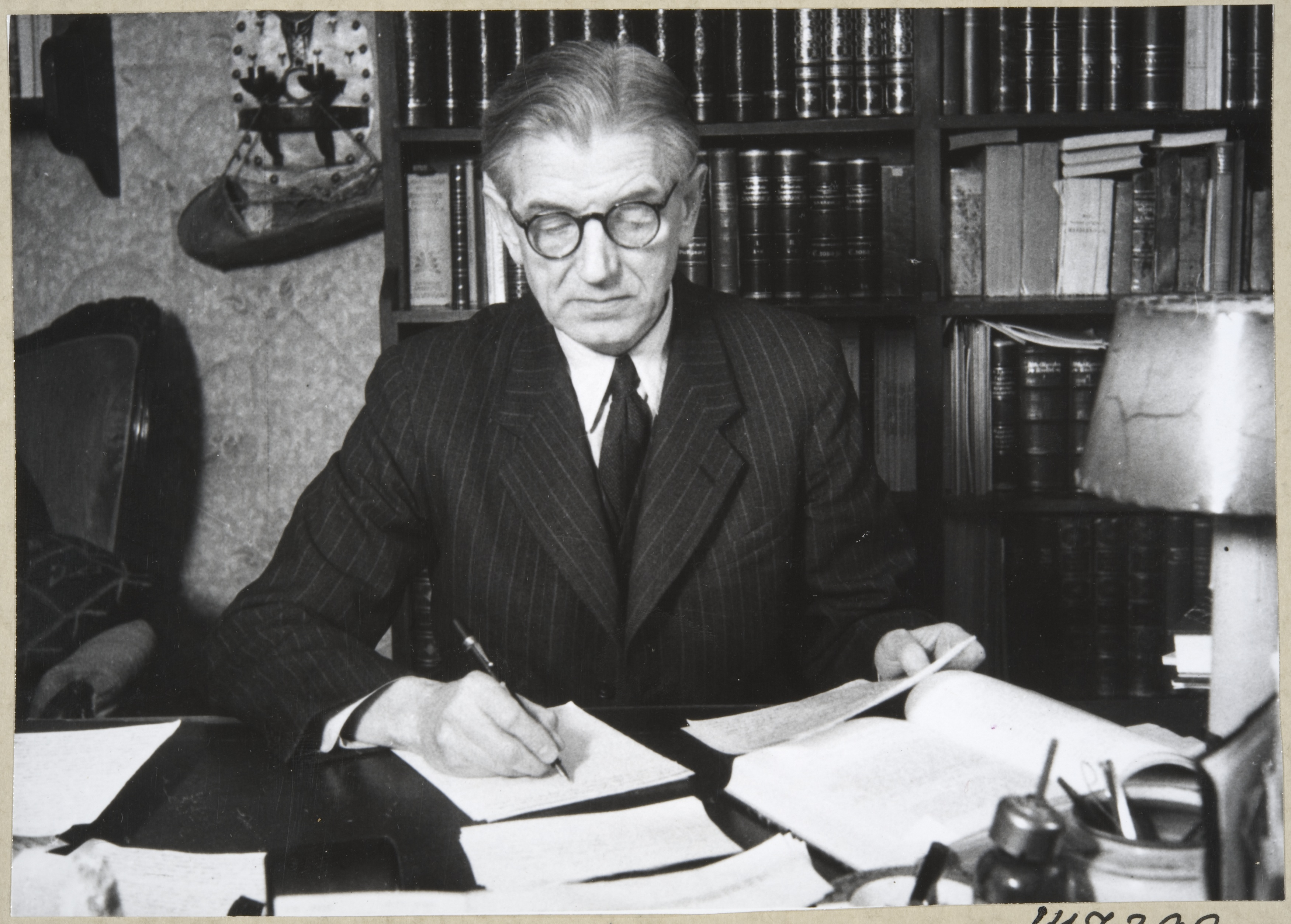 Photograph of the Finnish linguist Yrjö Toivonen (1890–1956).